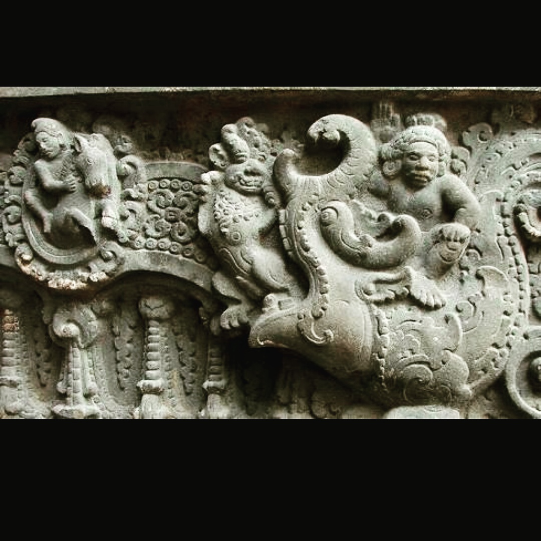 murudgan